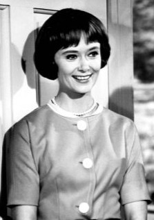 Photo of Christine White as cast regular Abby Adams (left) and guest star Jenny Maxwell from the television program Ichabod and Me.